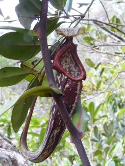 Nepenthes mapuluensis, upper pitcher ; East Kalimantan, about 650 m a.s.l.